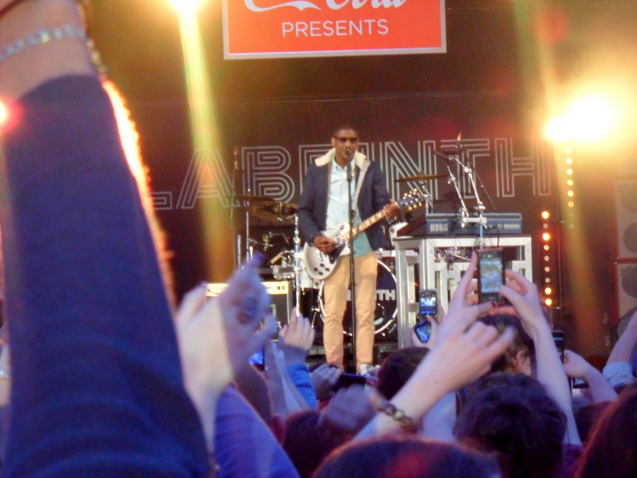 Labrinth, 2012